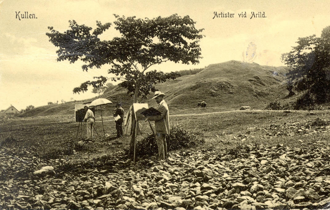 Artists painting outside Arild, Sweden